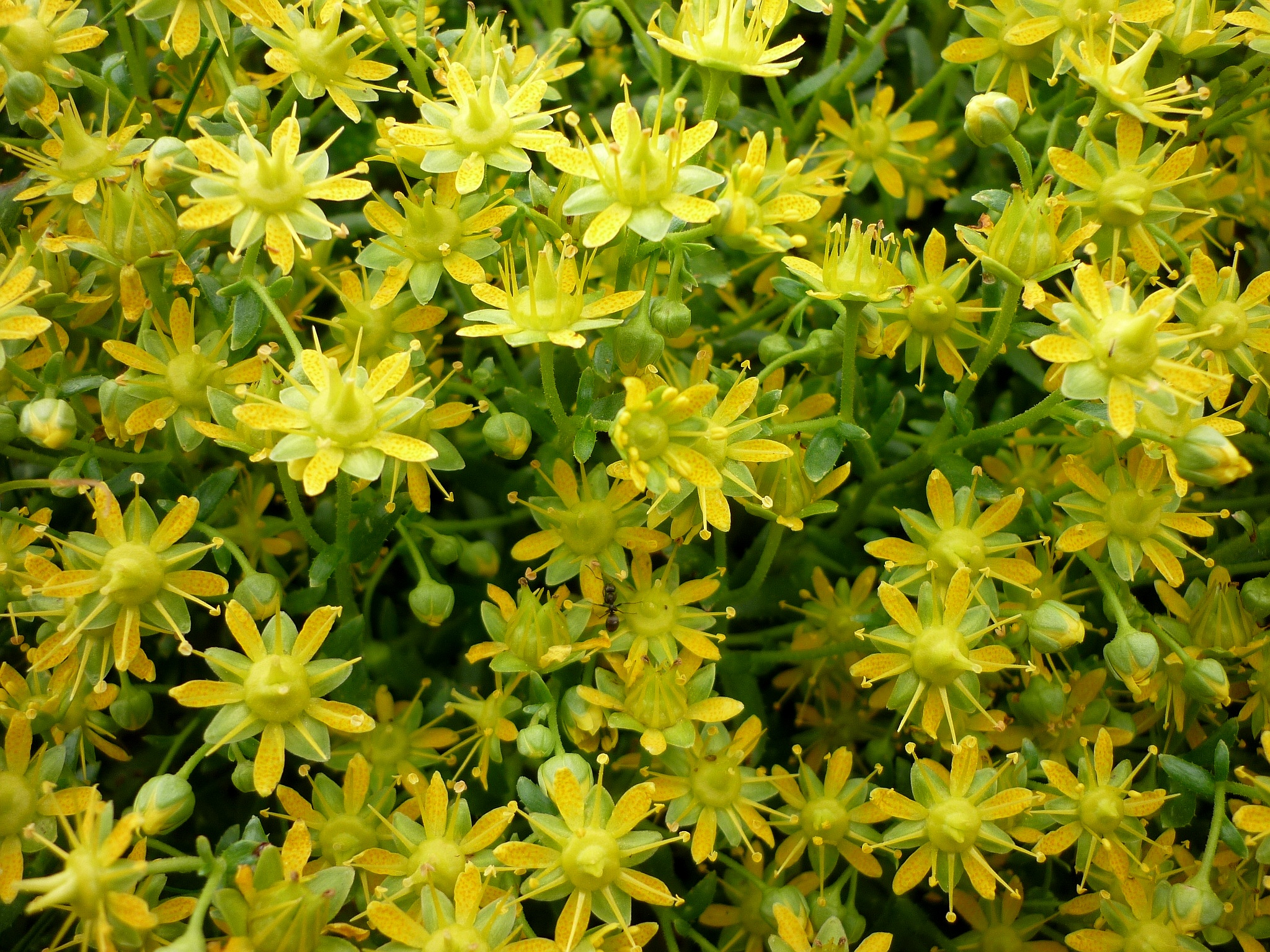 Saxifraga aizoides. Near the Estany Gento (Pallars Jussà - Catalunya. To 2.150 m altitude